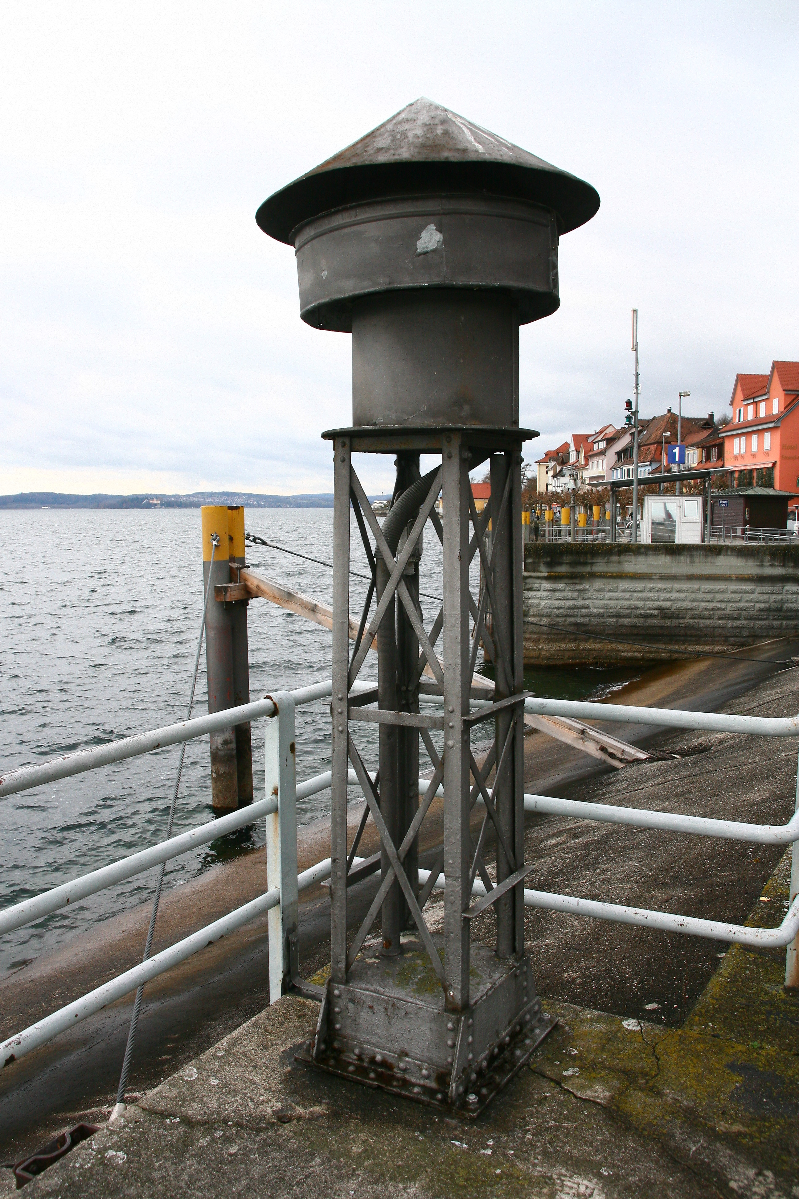 Fogsiren as Alternative to Foghorn